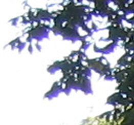 Example of a chromatic aberration Crop of a 3 Megapixels picture (magnified 200 %) Auteur : Fabien1309